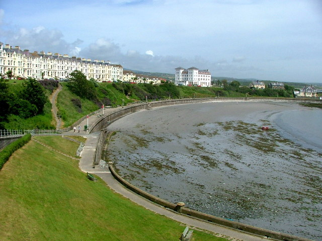 View of Port St Mary Bay. Only the foreground is in the Grid Square, the background is in SC2168